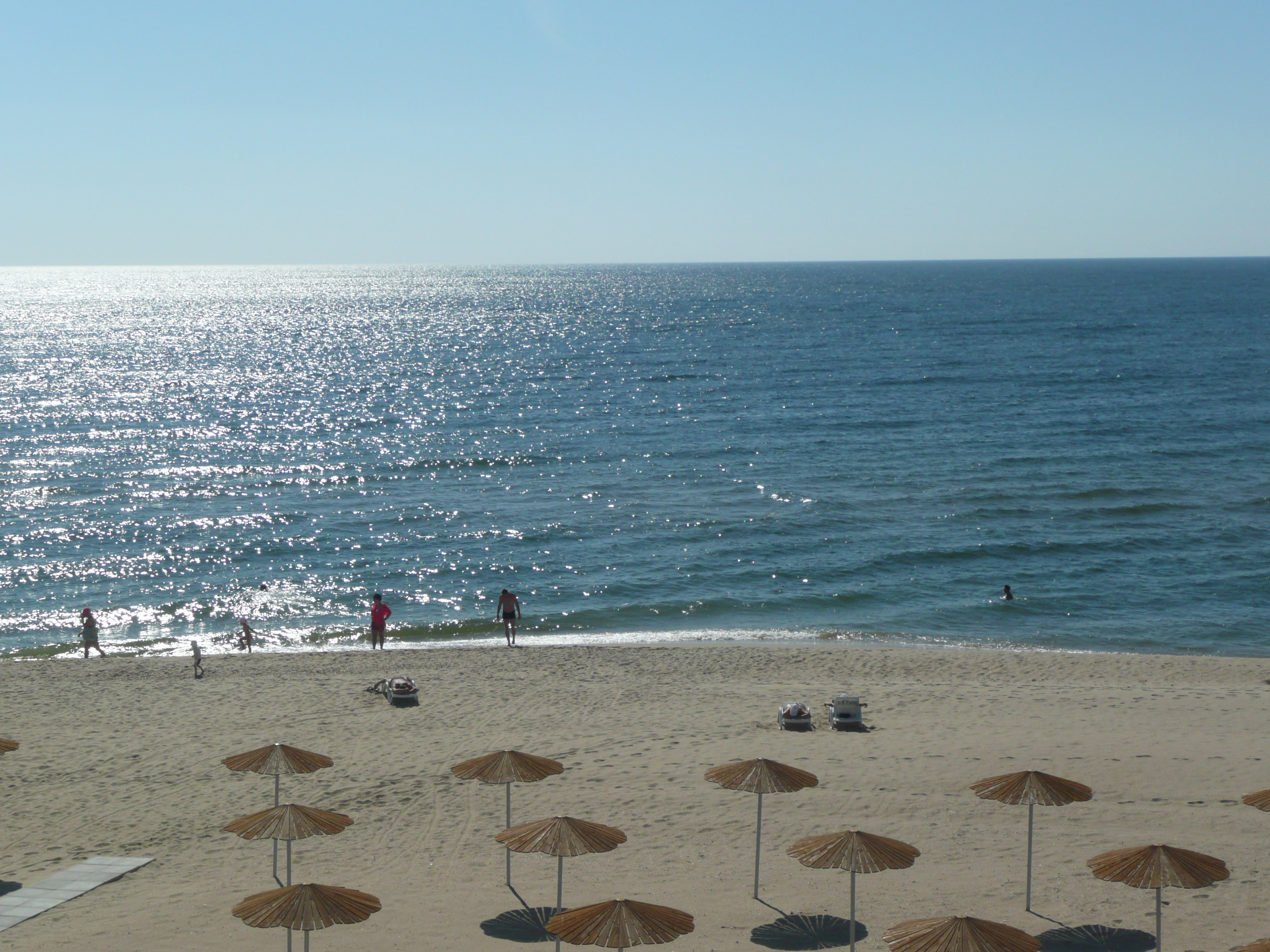 Zatoka (Odessa Oblast) - Black Sea beach